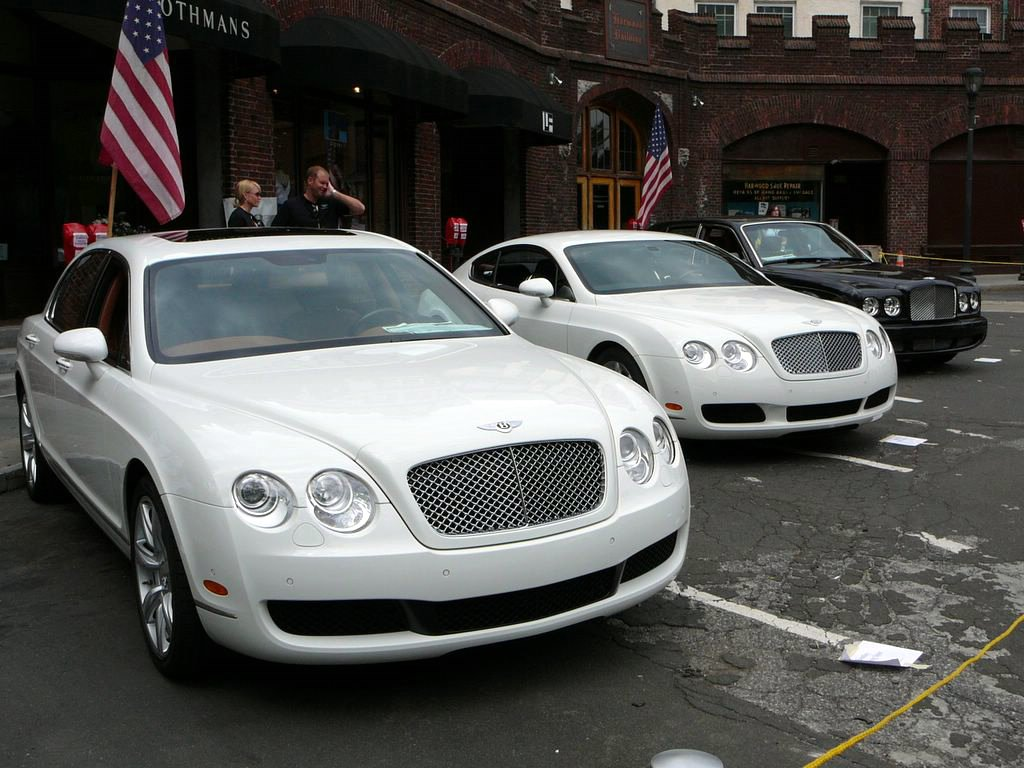 Left to right: Continental Flying Spur, Continental GT, Arnage RL